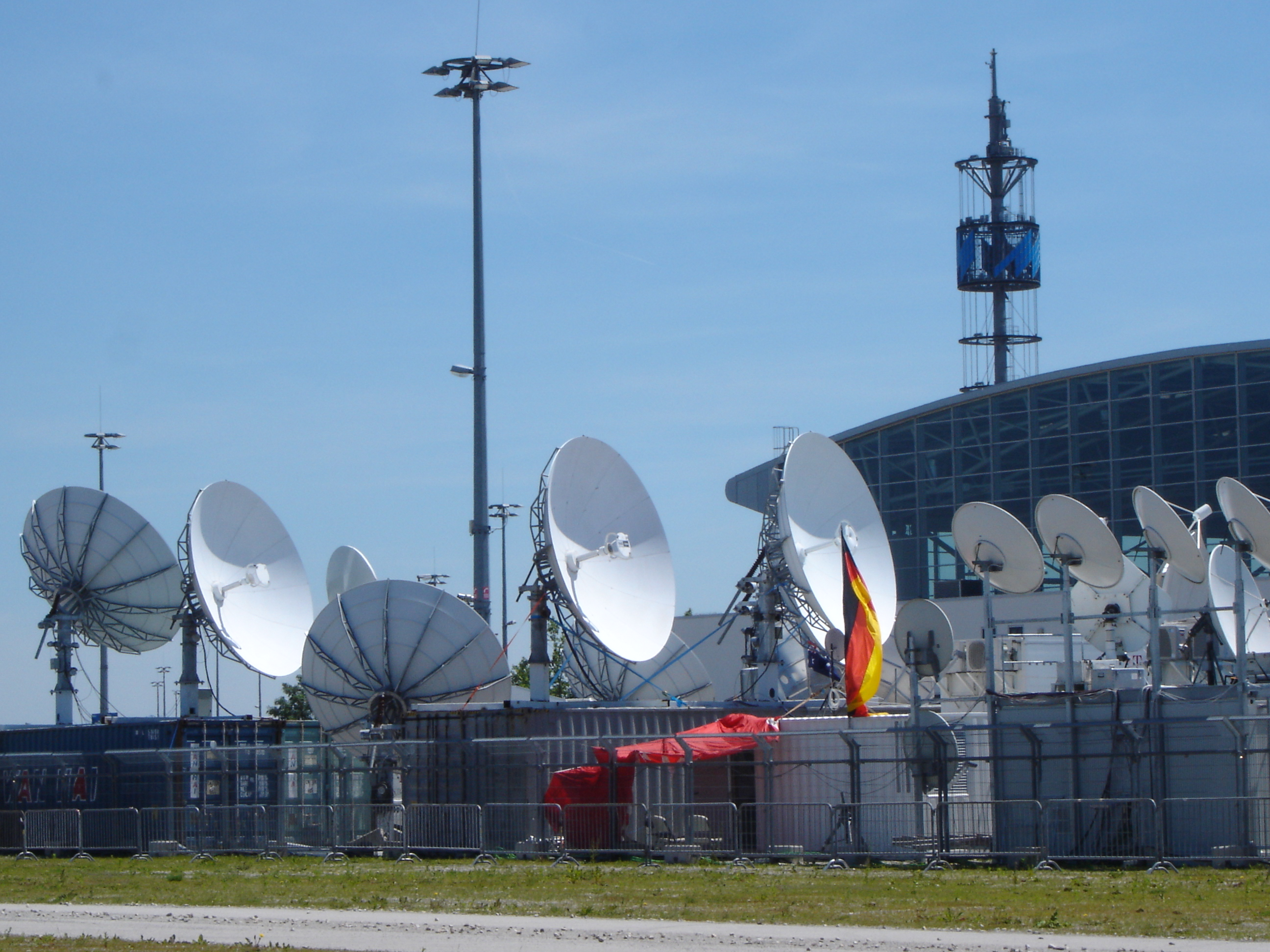 This is a picture of the satellite farm at the IBC in Munich during the FIFA worldcup 2006 in Germany.